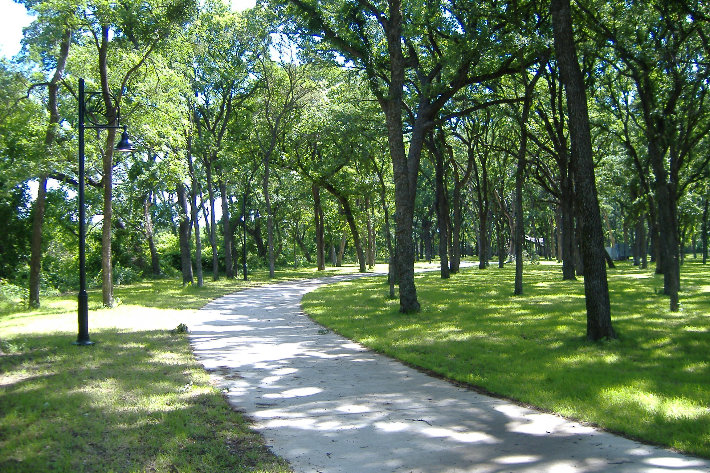 C.P. Waggoner Park in Grand Prairie, Texas.